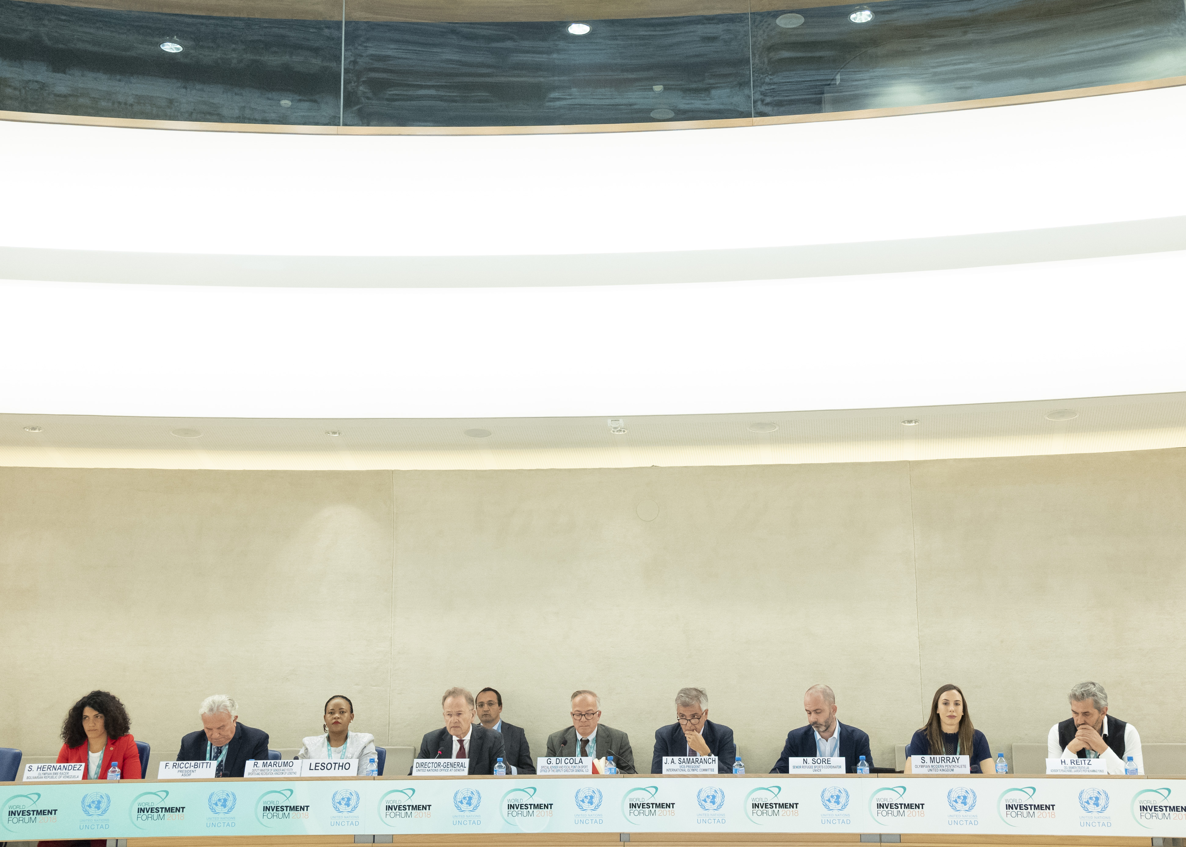 Michael Møller, Director-General, United Nations Office at Geneva, Juan Antonio Samaranch, Vice-President, International Olympic Committee (IOC), Rethabile Marumo, Deputy Minister of Gender and Youth, Sports and Recreation, Kingdom of Lesotho, Francesco Ricci-Bitti, President, Association of Summer Olympic International Federations (ASOIF), Samantha Murray (UK), World Champion and Olympic Medalist, Pentathlon at a Panel Investing in Sport SDGs during the Word Investment Forum 2018. 23 october 2018. UNCTAD Photo/Jean Marc Ferré